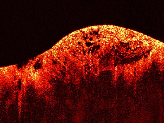 Optical Coherence Tomography (OCT) image of a sarcoma This image of a sarcoma, or muscle tumor, was obtained using Optical Coherence Tomography (OCT). This technique is similar to ultrasound, and yields images of tissues below the surface. The images are on a micron scale, and they are gathered by measuring scattered light waves that bounce off of tissue. In this picture, the tissue looks healthy and normal on the left. To the right, the structure appears cancerous and irregular. Images like this one, obtained by using OCT in real-time, can help to promote human health by detecting tumors early during image-guided procedures, and allowing time for treatment.